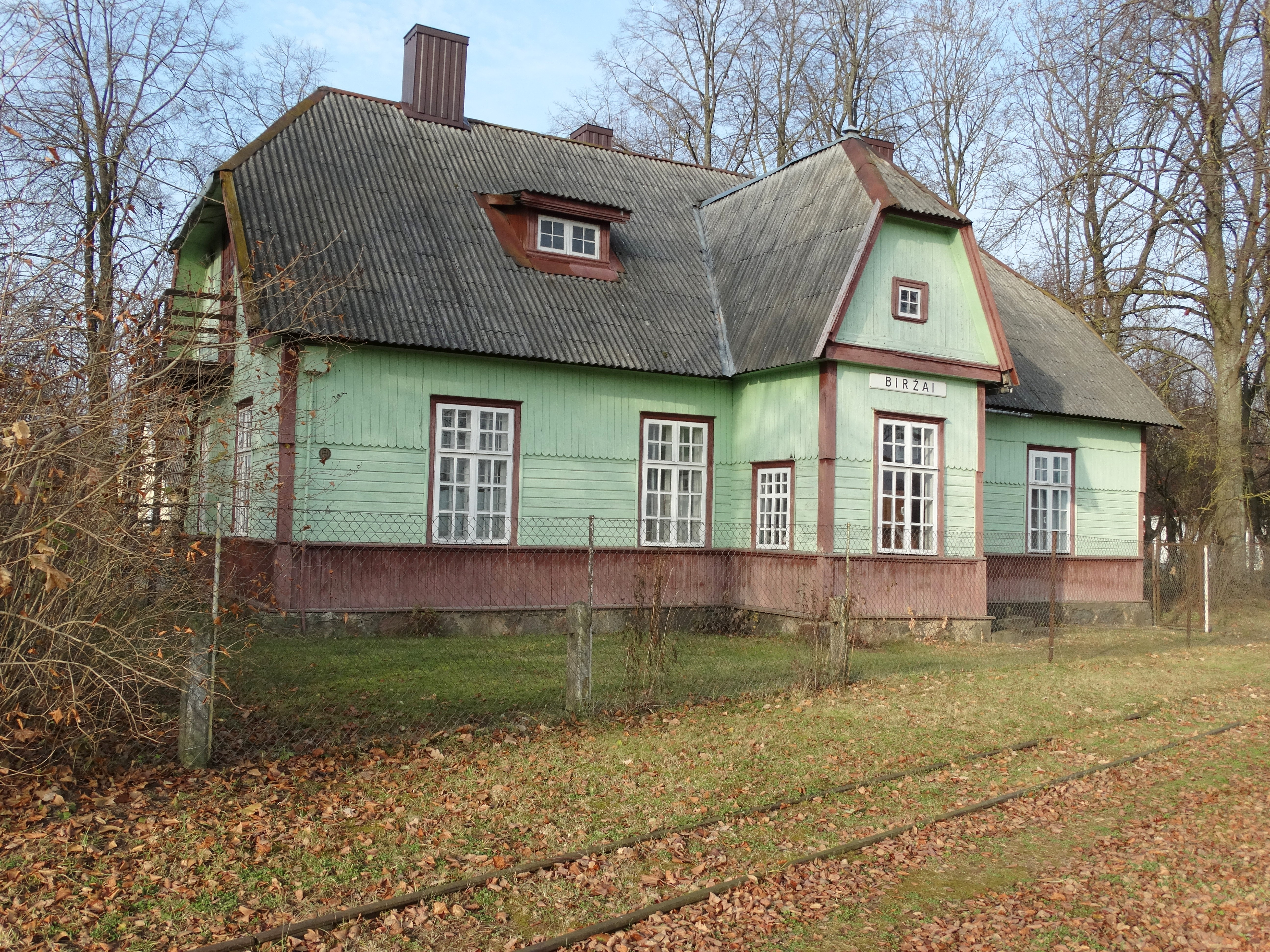 Narrow gauge railway station, Biržai, Lithuania